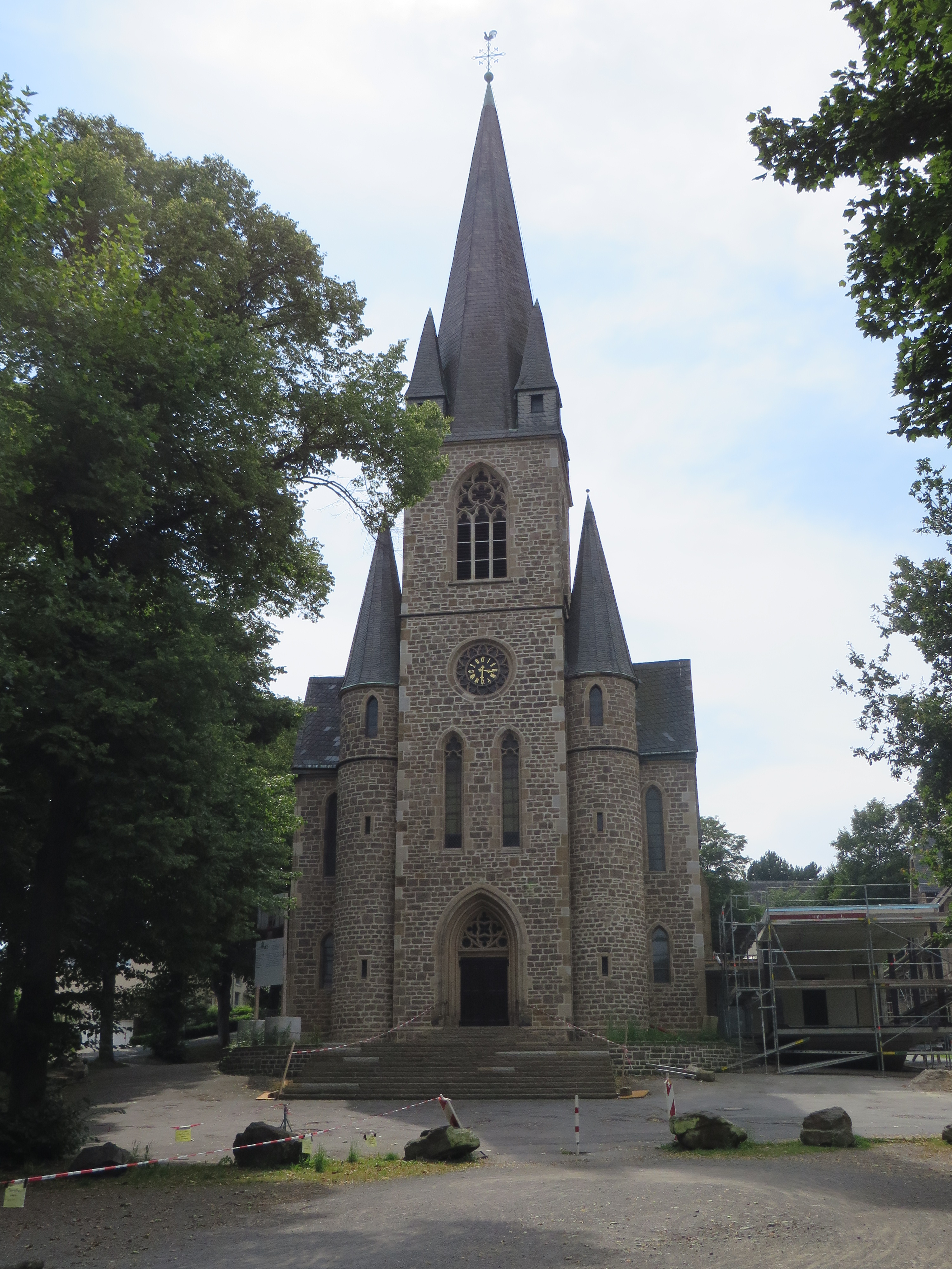 Protestant church in Witten-Bommern, GermanyEsperanto: Protestanta kirko en Witten-Bommern, Germanio